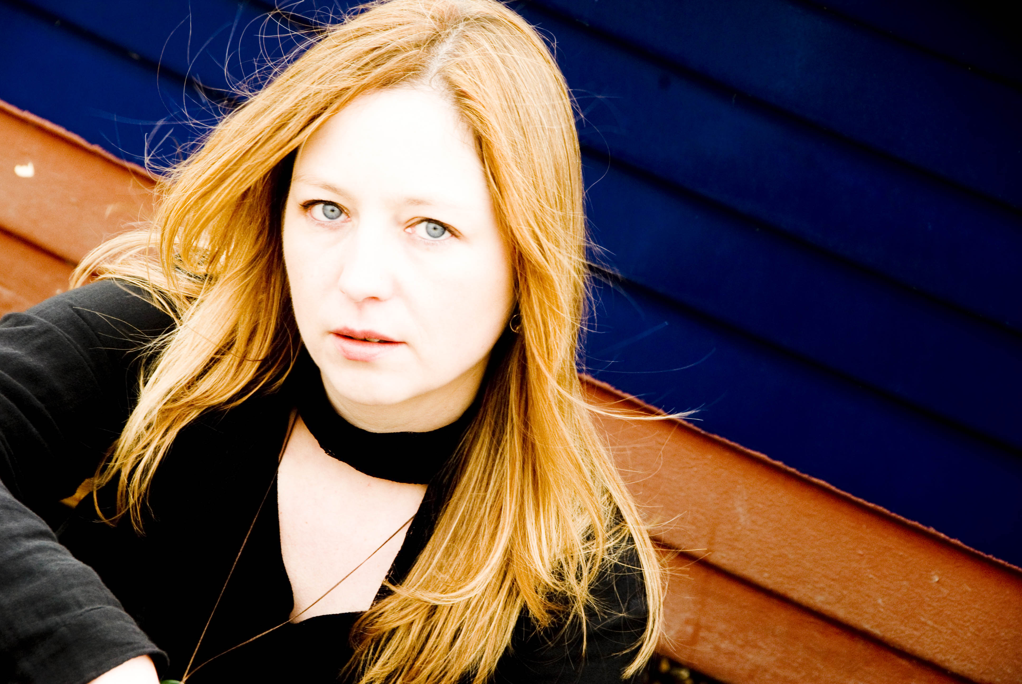 Scarlett Thomas, British author. Photograph taken at Lancaster Litfest 2006.